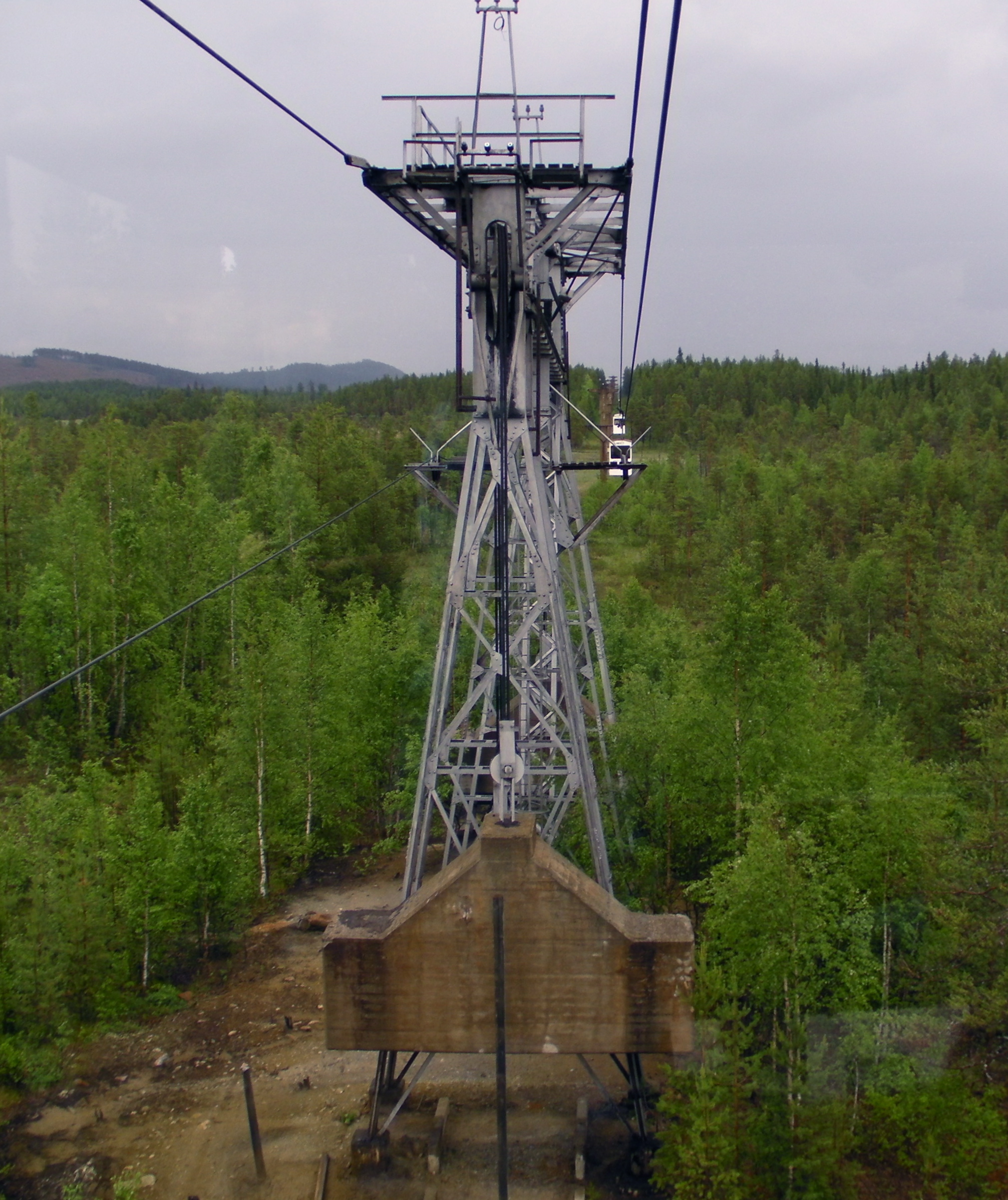 View of the passenger-carrying section of the former Kristineberg-Boliden cableway.